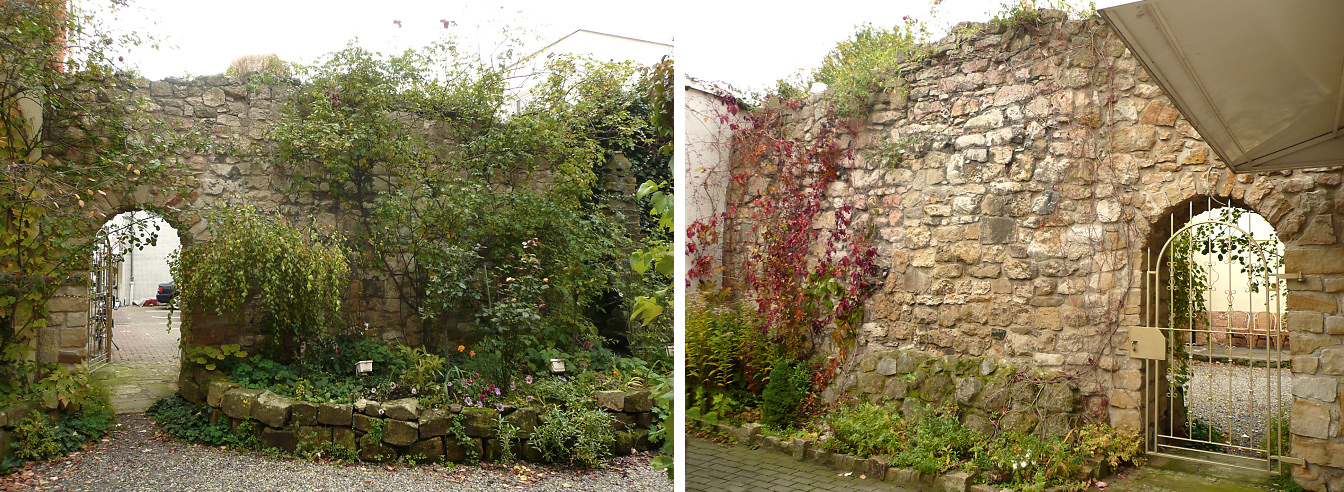 City wall near street Osterstraße in Hannover, Lower Saxony, Germany